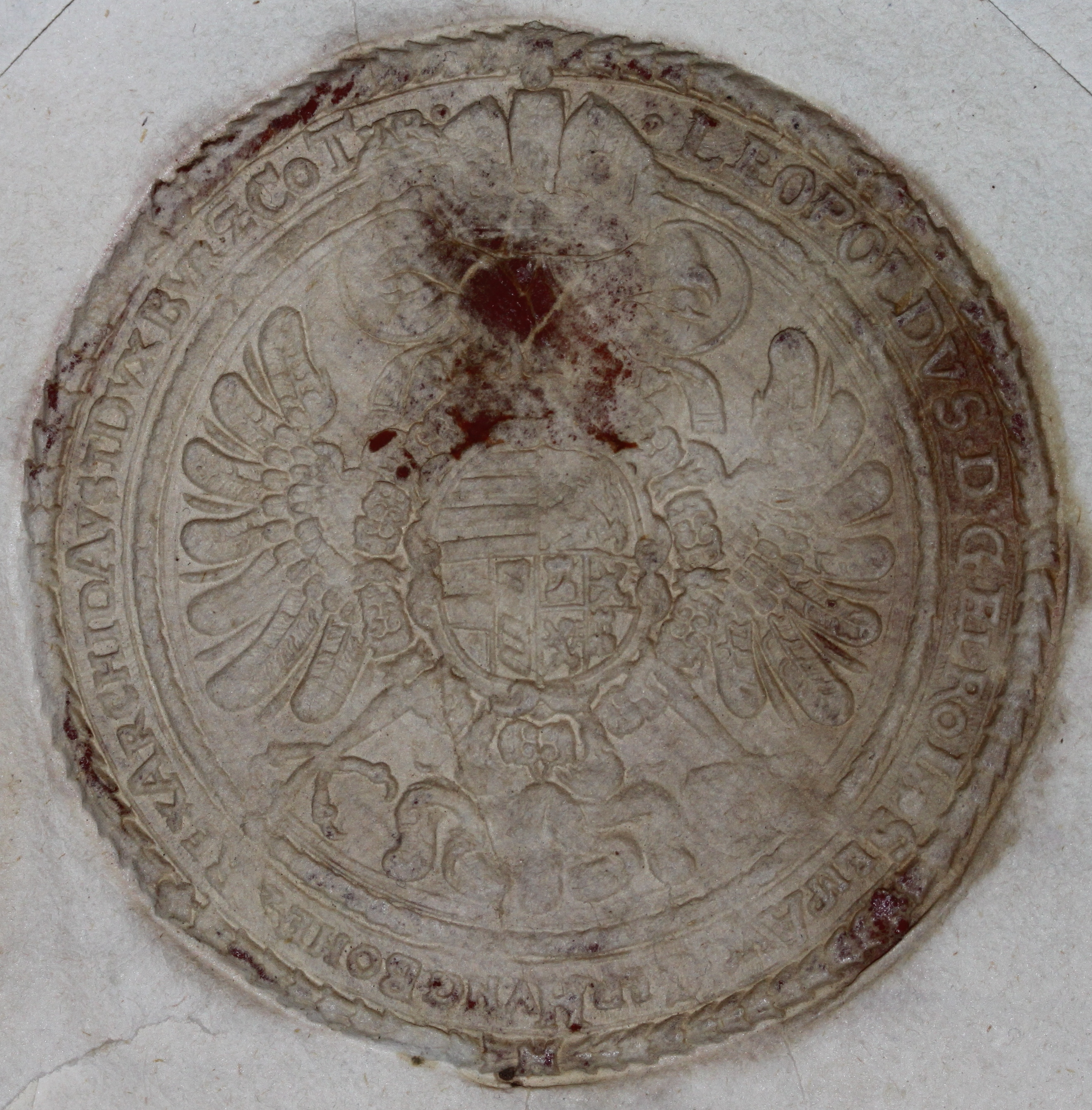 Seal of Leopold I Holy Roman Emperor from a letter to Count Wolfgang George of Castell, dated 20 Aug 1673; Legend surrounding the coat of arms: LEOPOLDVS D[EI] G[RATIA] EL[ECTUS] RO[MANORVM] IMP[ERATOR] SEMP[ER] AVG[VSTVS] GER[MANIÆ] HVNG[ARIÆ] BOHE[MIÆ] REX ARCHID[VX] AVST[RIÆ] DVX BVR[GVNDIÆ] CO[MES] TYR[OLIS] Leopold I, by the grace of God, elected Emperor of the Romans, Ever August, King of Germany, Hungary, and Bohemia, Archduke of Austria, Duke of Burgundy, Count of Tyrol.